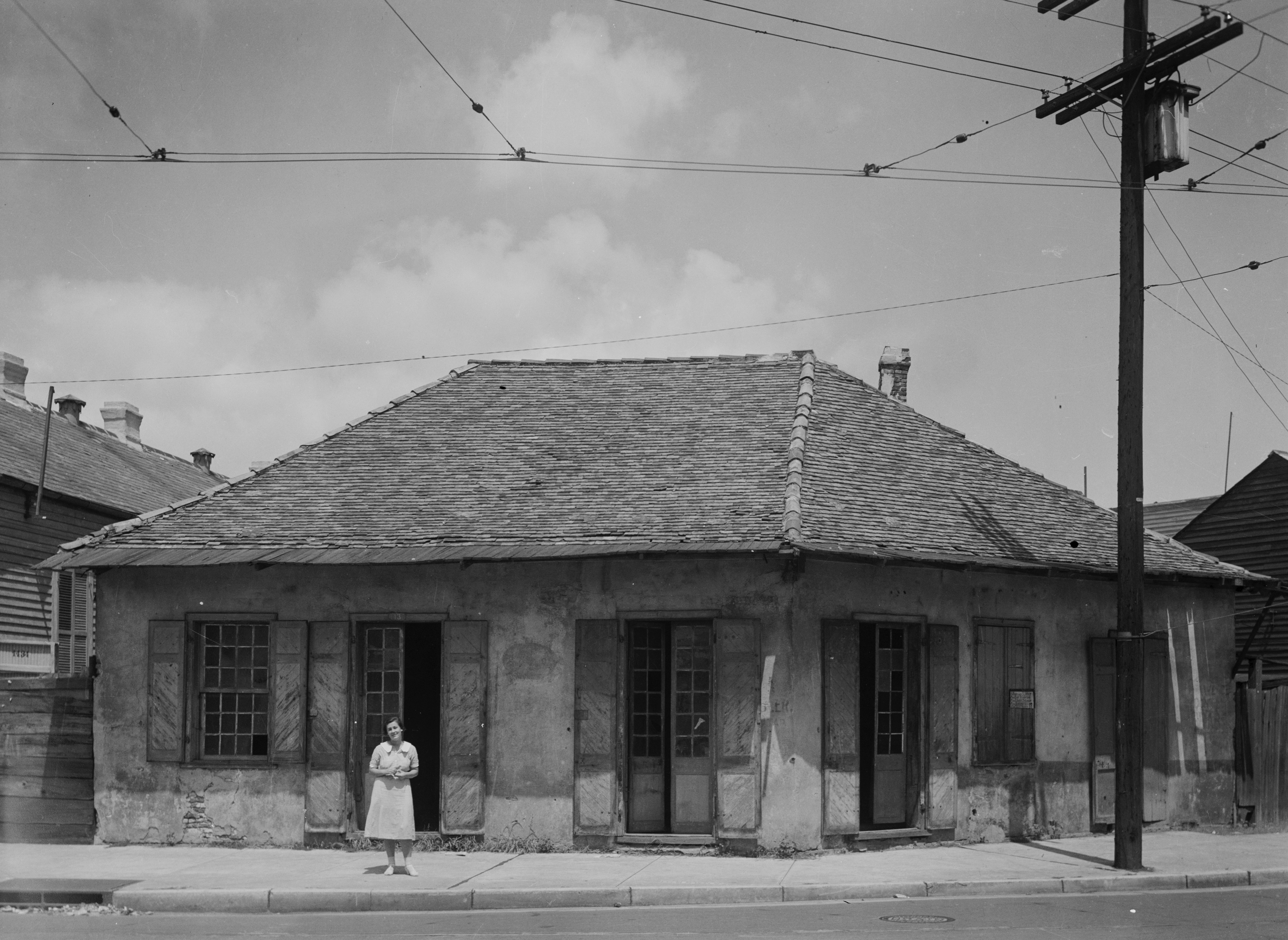 New Orleans, 1934. House on Pauger Street, Faubourg Marigny neighborhood, front view. "1436 Pauger Street (Cottage), New Orleans, Orleans Parish, LA "Historic American Buildings Survey Richard Koch, Photographer, August, 1934 NORTHEAST ELEVATION HABS LA,36-NEWOR,12-2"